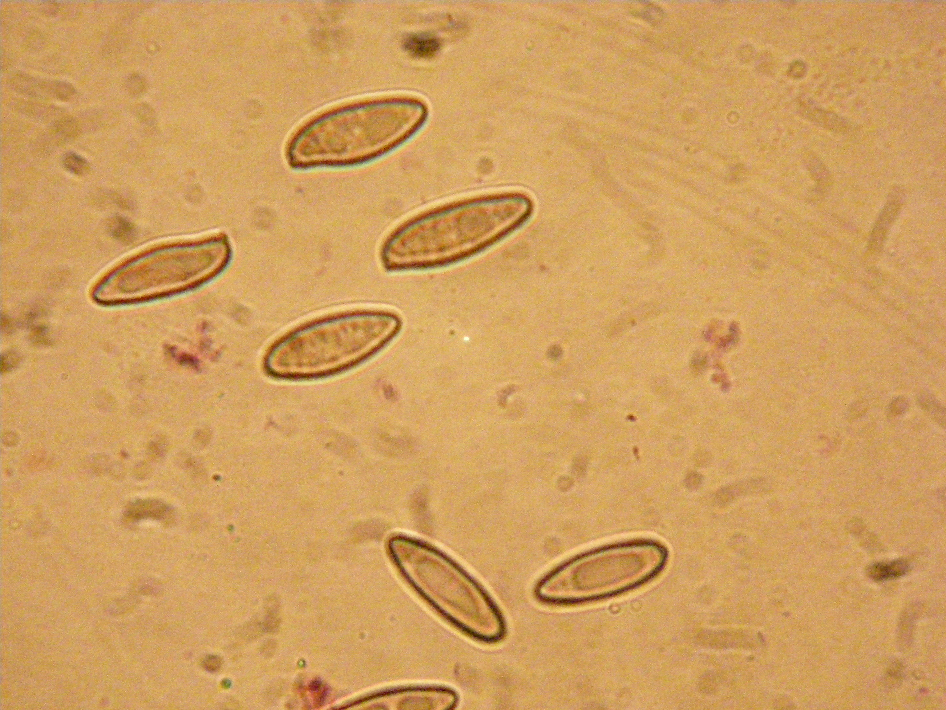 Boletus pulverulentus Opat. Image location: Big Thicket, Polk Co., Texas, USA The outstanding characteristic of this specimen was the rapid, bright blue bruising of the pores, flesh, and stipe. The average size of the spores was about 15.1 X 5.4 microns so that seems to include B. pulverulentus. I left some room to be overruled since the cap color seems much lighter than noted in the descriptions. Recognized by sight For more information about this, see the observation page at Mushroom Observer.